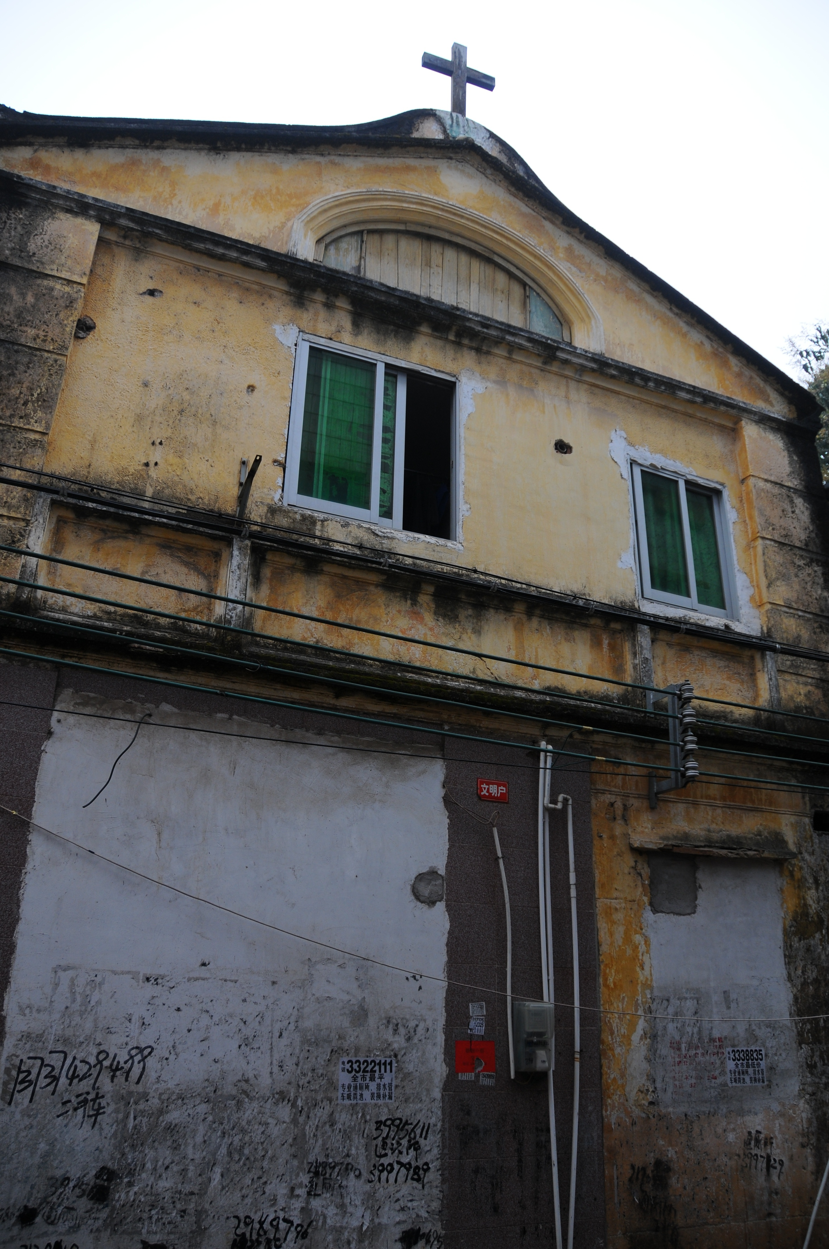 The first church built by the Maryknoll Fathers in China. Located in Yangjiang. This church building is now converted into a hostel by the local parish, with new cathedral built nearby. The fund generated by the hostel is used to subsidise the operation of the local parish.